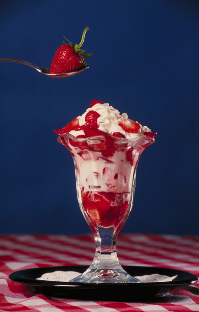 Strawberry sundae Image Number: 98cs0108 CD3358-065